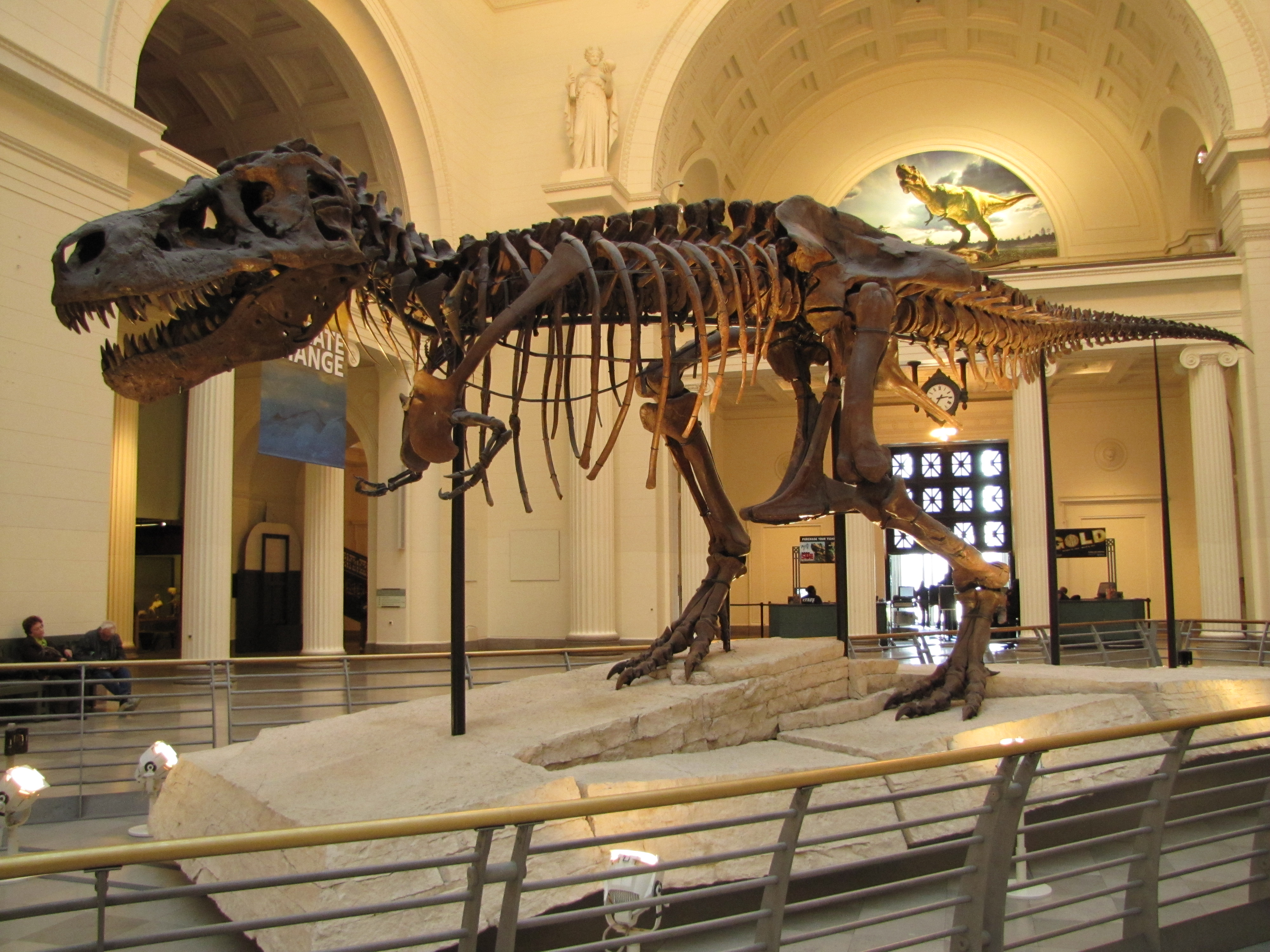 Tyrannosaurus rex "Sue" displayed at the Field Museum in Chicago, Illinois, U.S.